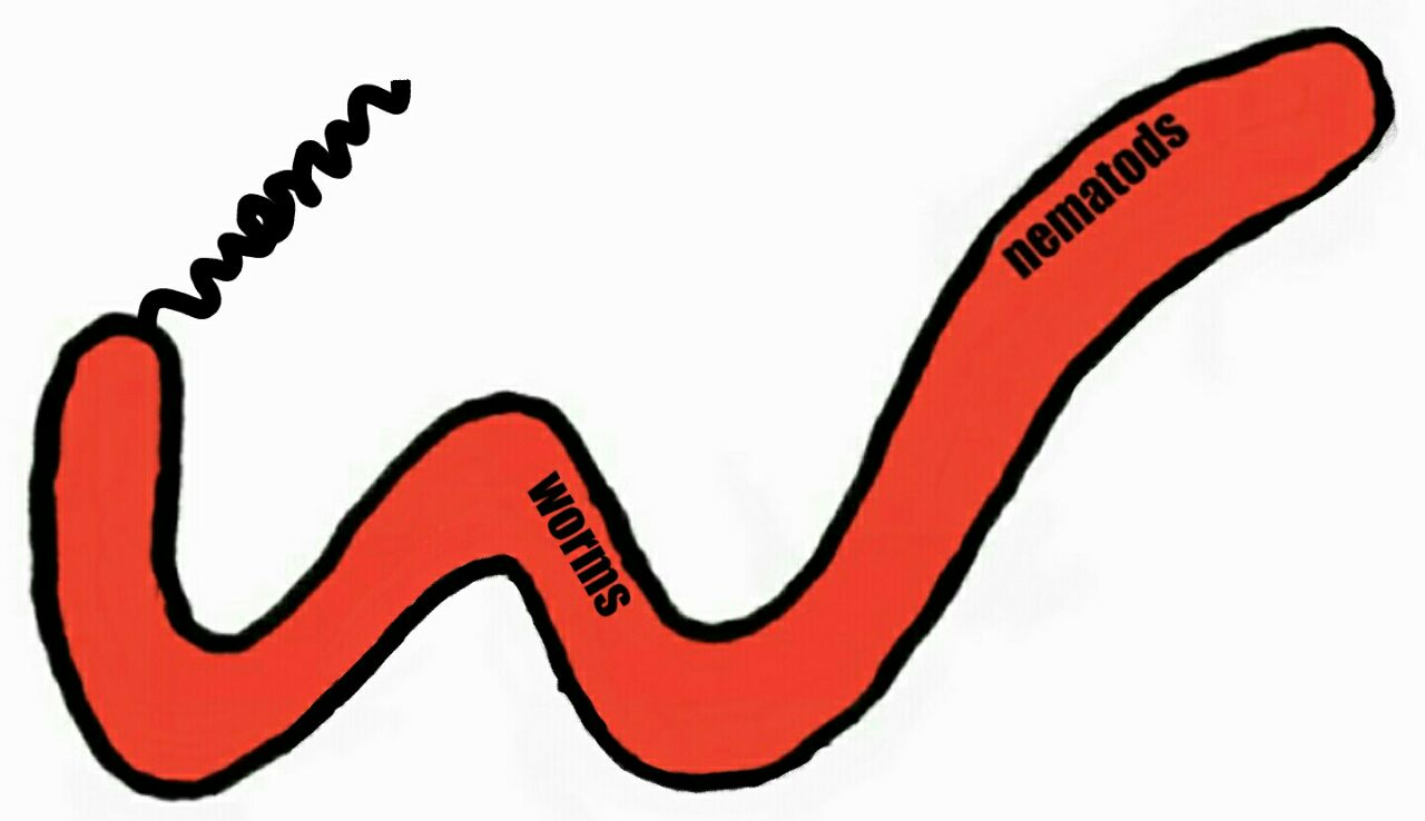 logo renale